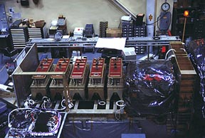 This is an image of a real X-ray detector. The instrument is called the Proportional Counter Array and it is on the Rossi X-ray Timing Explorer (RXTE) satellite.